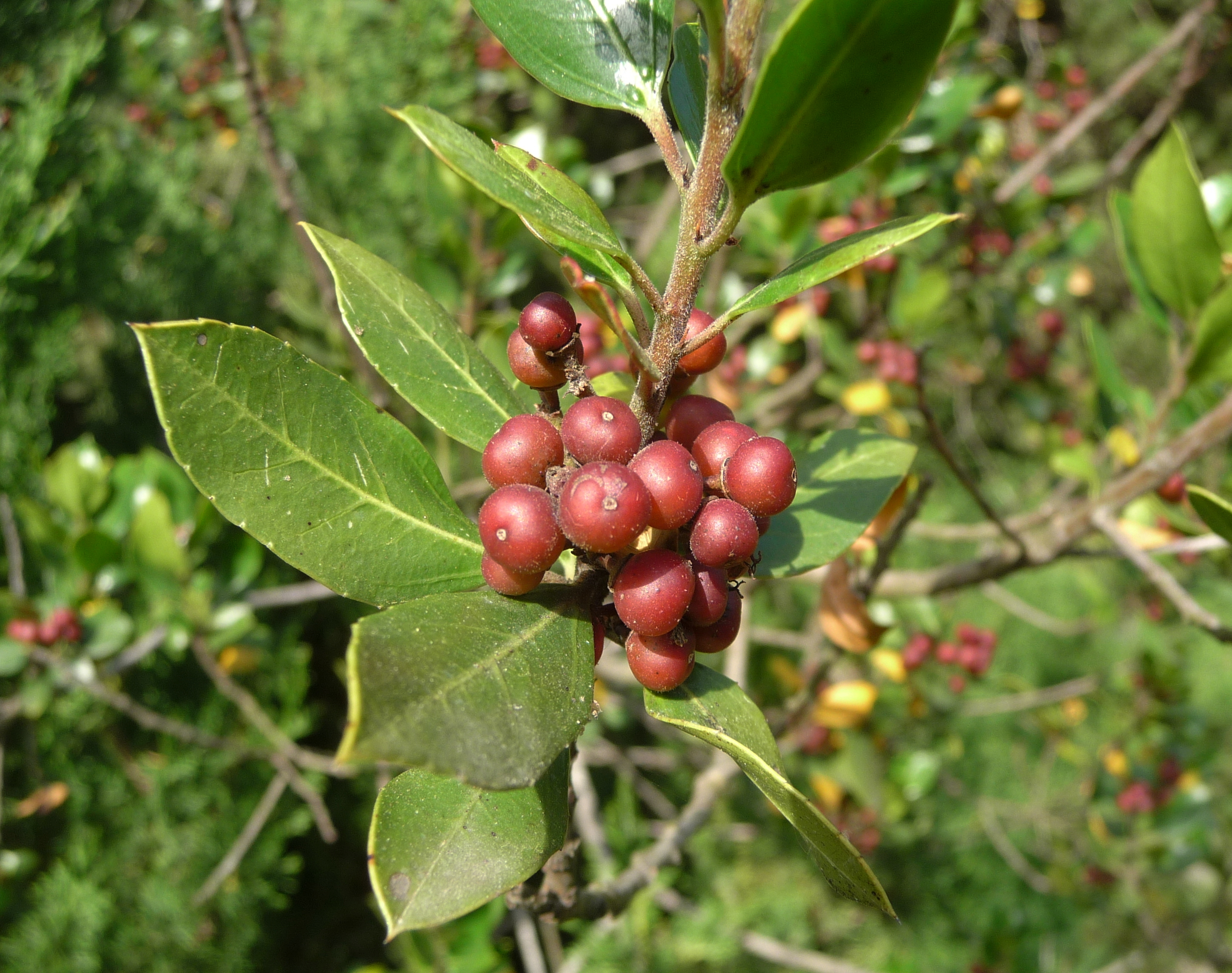 Fruits of Rhamnus alaternus - Macchia near Livorno, Tuscany, Italy